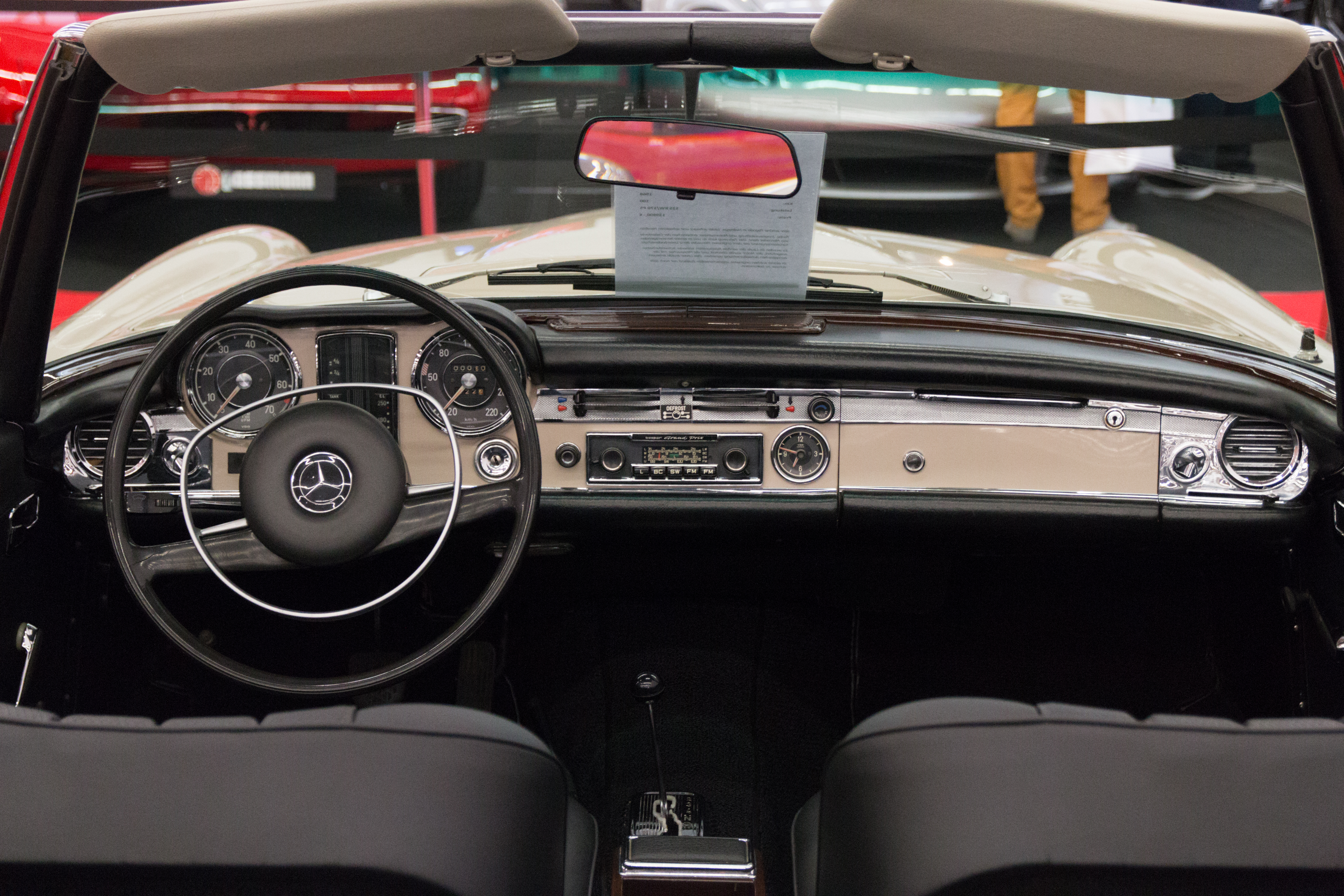 Mercedes-Benz W113 Pagoda